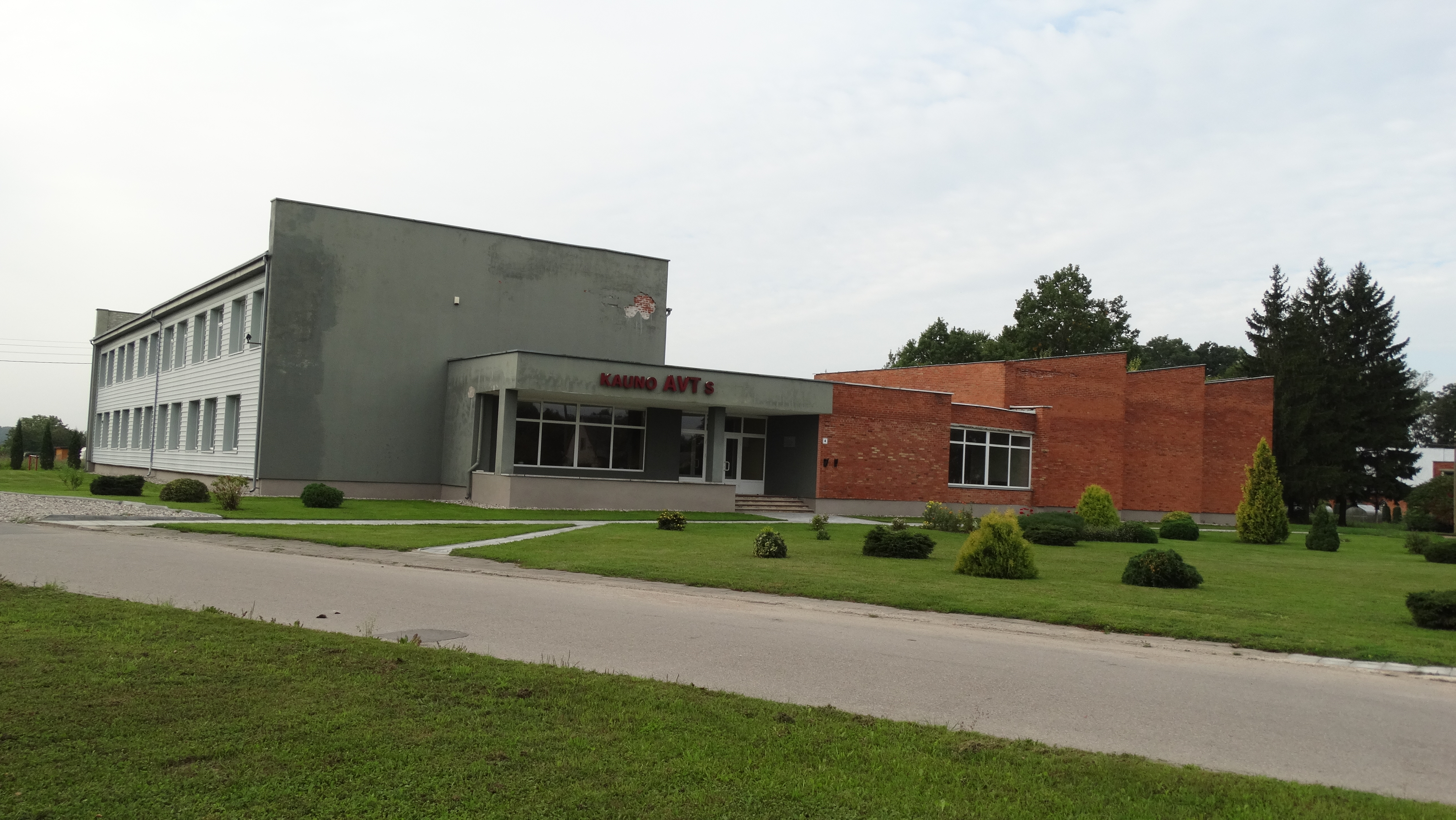 Muniškiai, Kaunas district, Lithuania